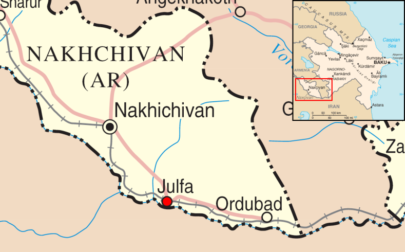 Map of Azerbaijan showing location of Julfa